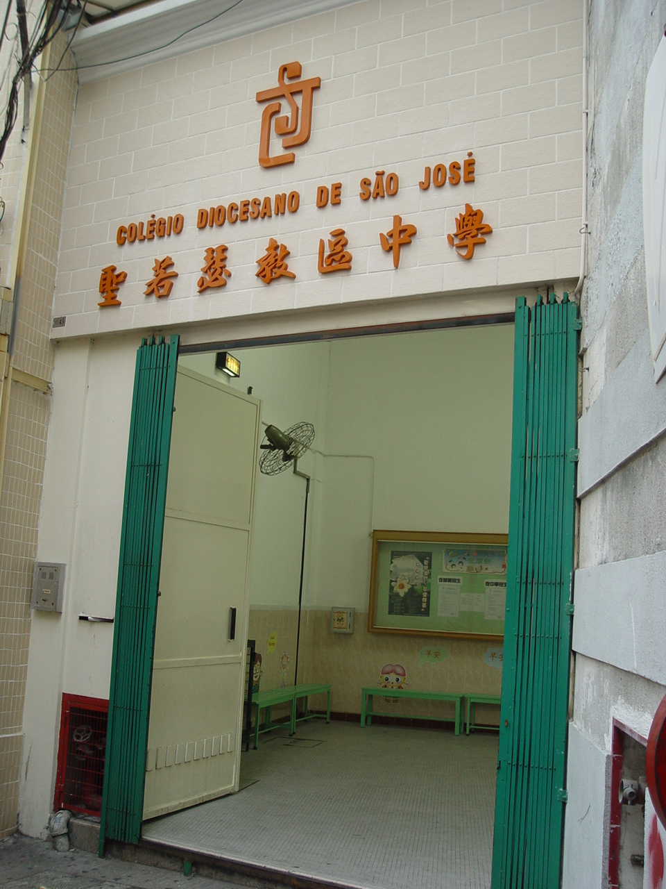 Colégio Diocesano de São José, Schools 2 and 3